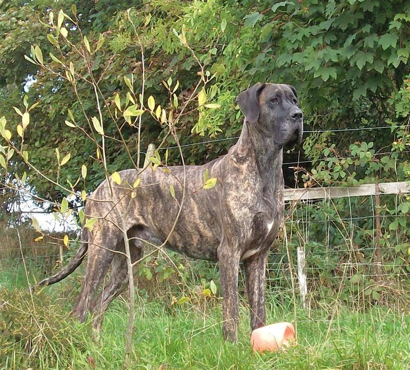 photograph of my Great Dane, Fainomenon Sharp Dressed Man, in Ireland.